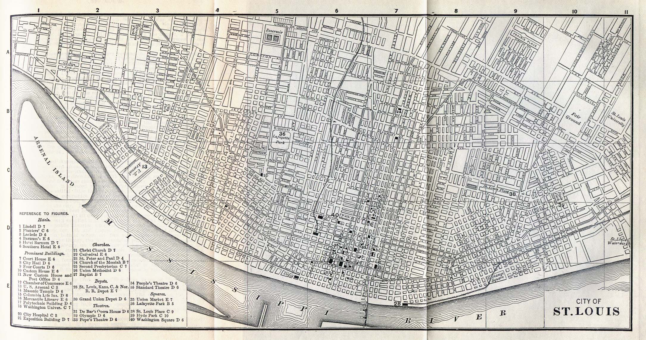 A map of St Louis from 1885 originally listed at